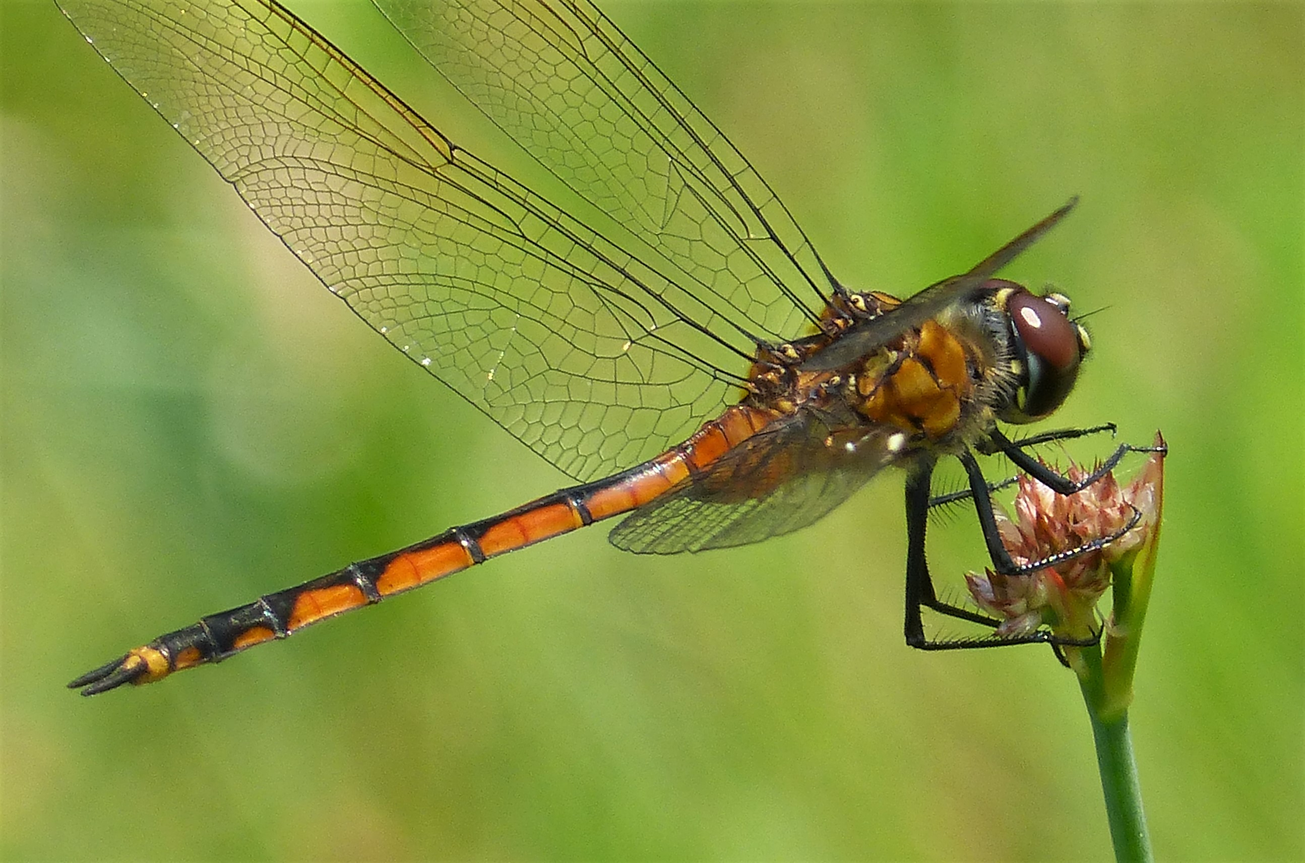 Harris Neck Reserve, Georgia, USA